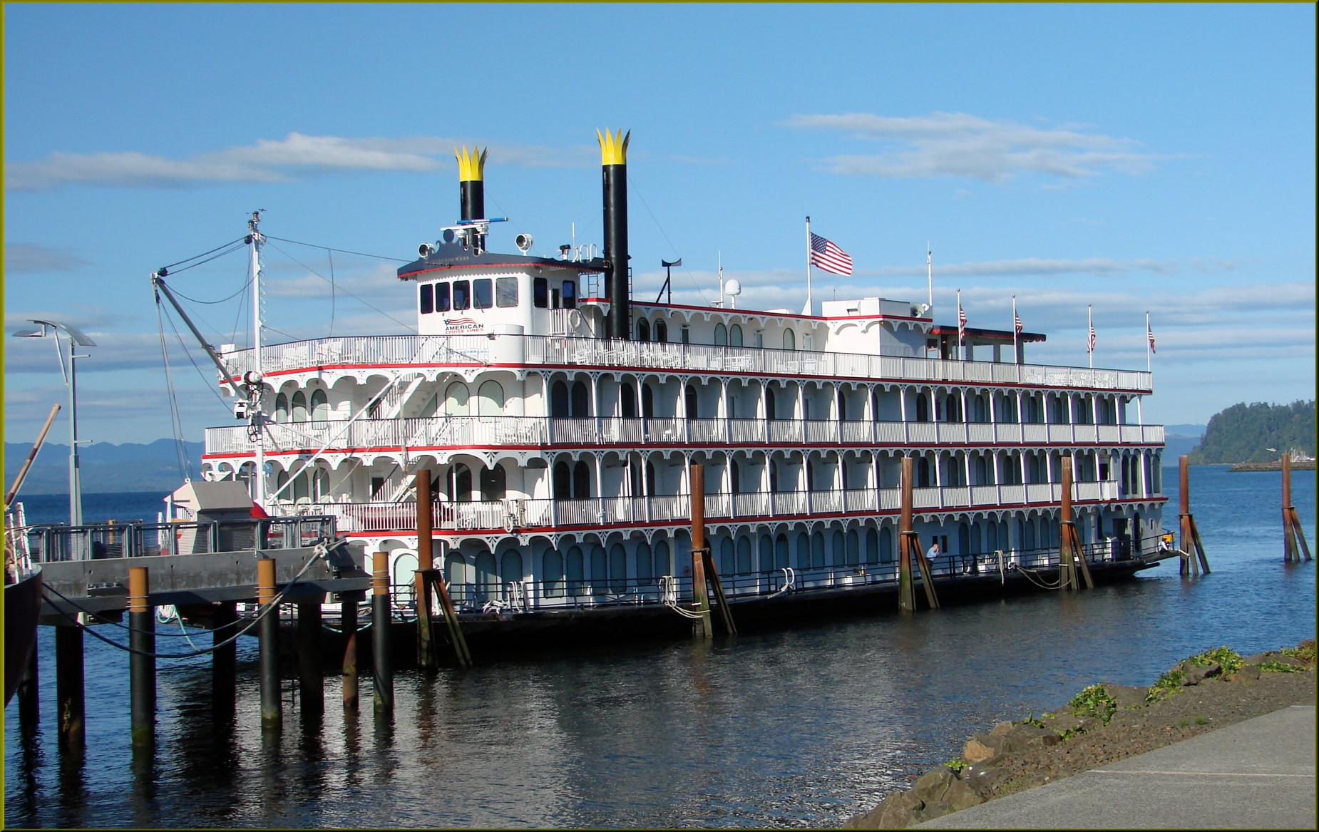 The Queen of the West sternwheeler moored at Astoria, Oregon, in 2013